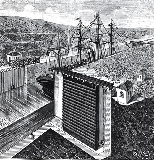 Illustration of proposed lock design by Gustav Eifel for Panama Canal Published in 'La Genie Civil, France, 1988.